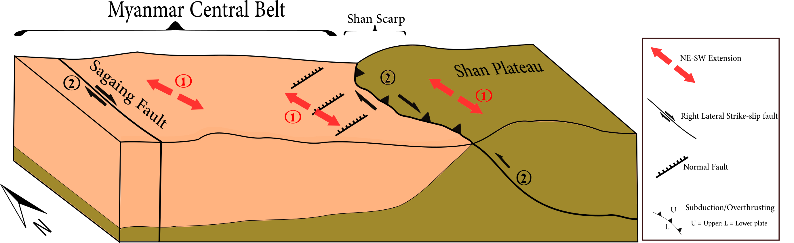 The Cross section of Myanmar Central Belt